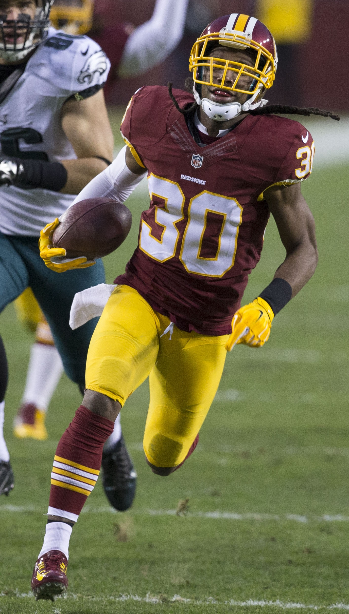 Eagles at Redskins 12/20/14